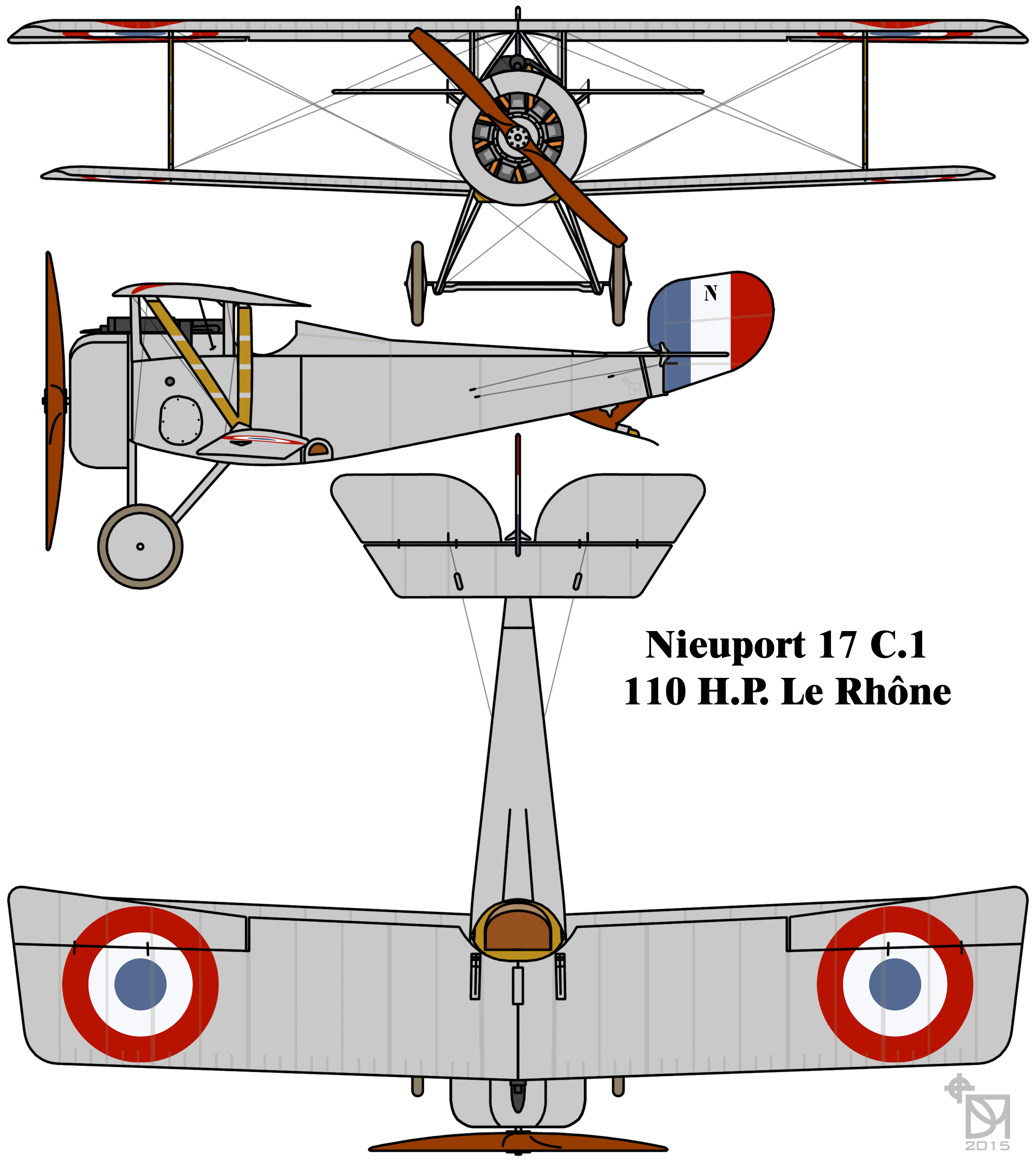 Nieuport 17 C.1 French World War One single seat sesquiplane fighter color line drawing